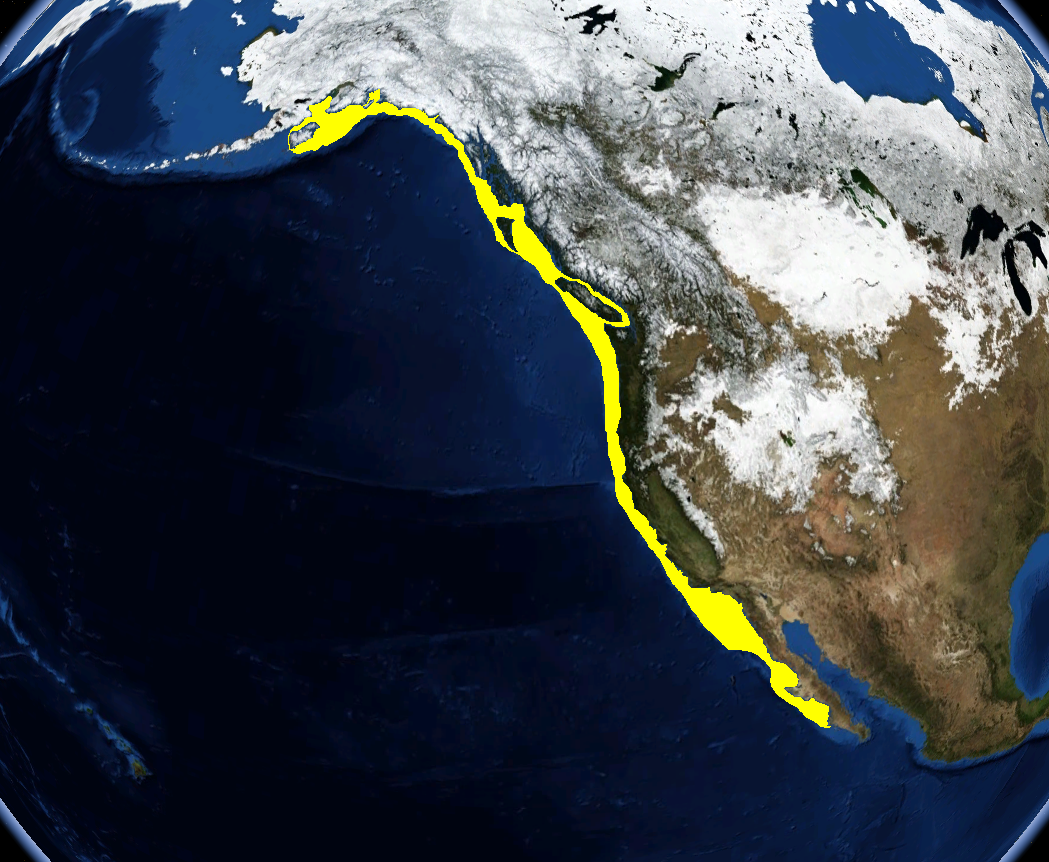 Habitat range of the Lingcod, Ophiodon elongatus.